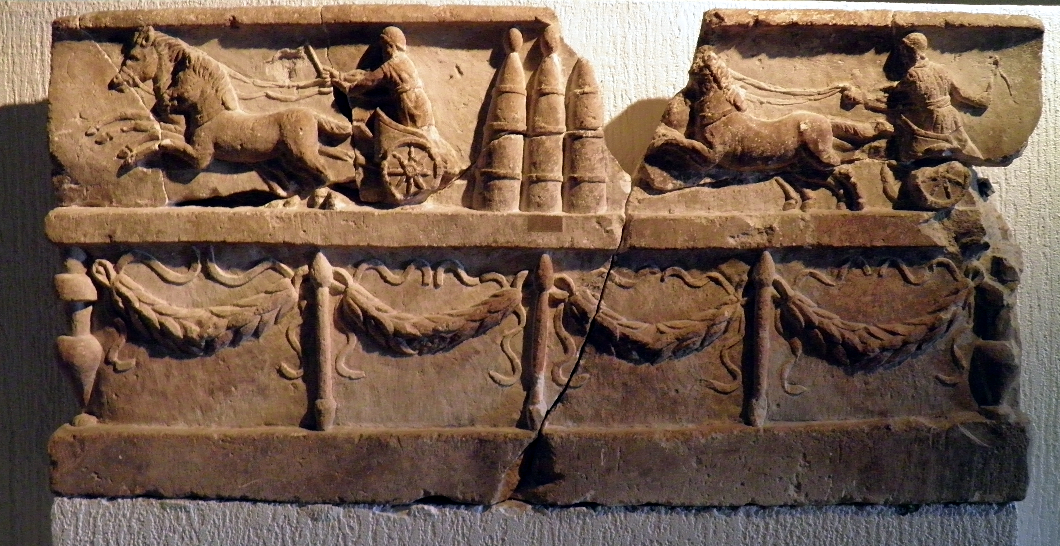 Limestone bas-relief with scene of chariots at full rush, in the centre three boundary stones and below a balustrade decorated with laurel leaves garlands, Musée gallo-romain de Fourvière, Lyon